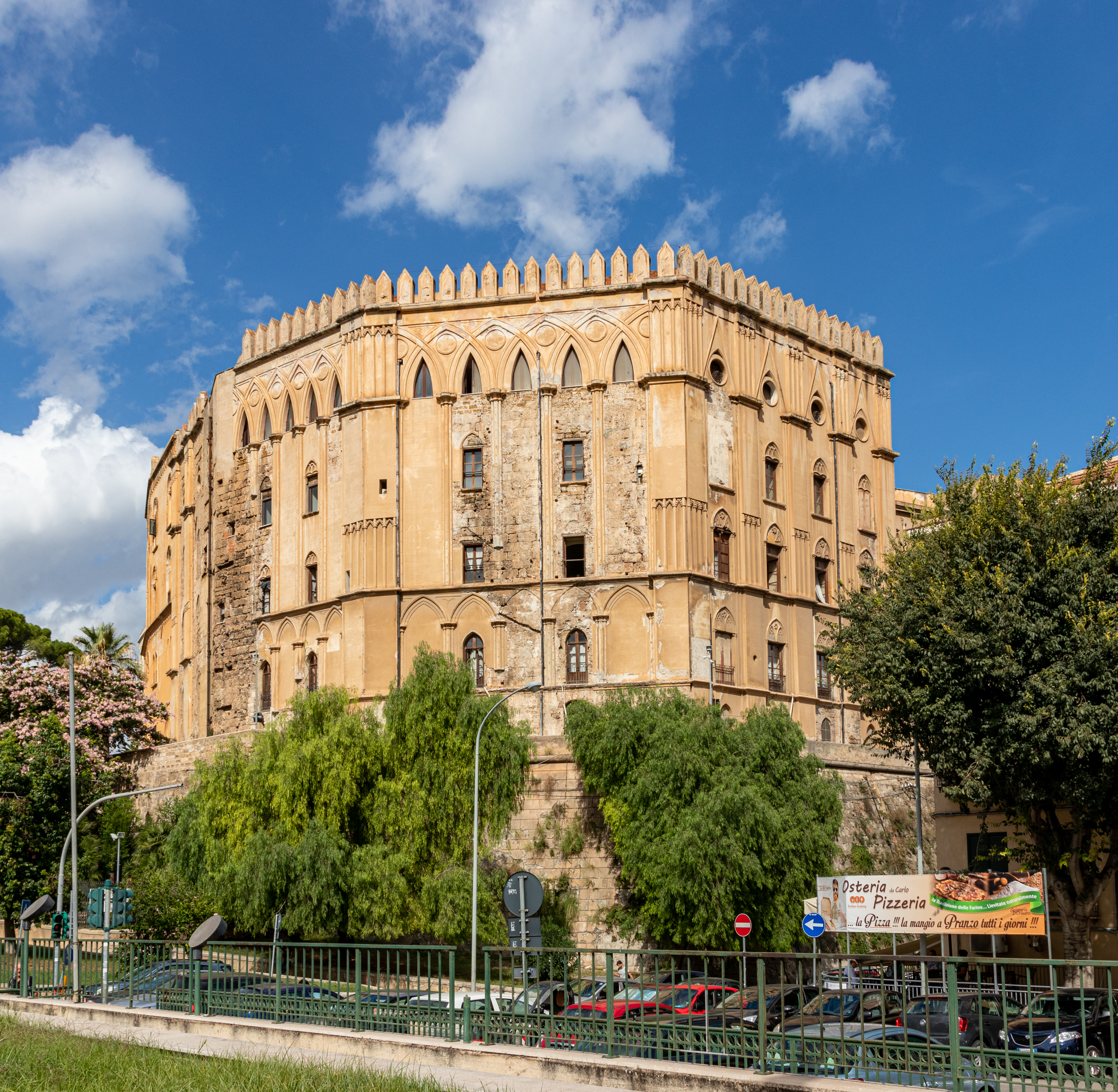 Palazzo dei Normanni (Palermo)